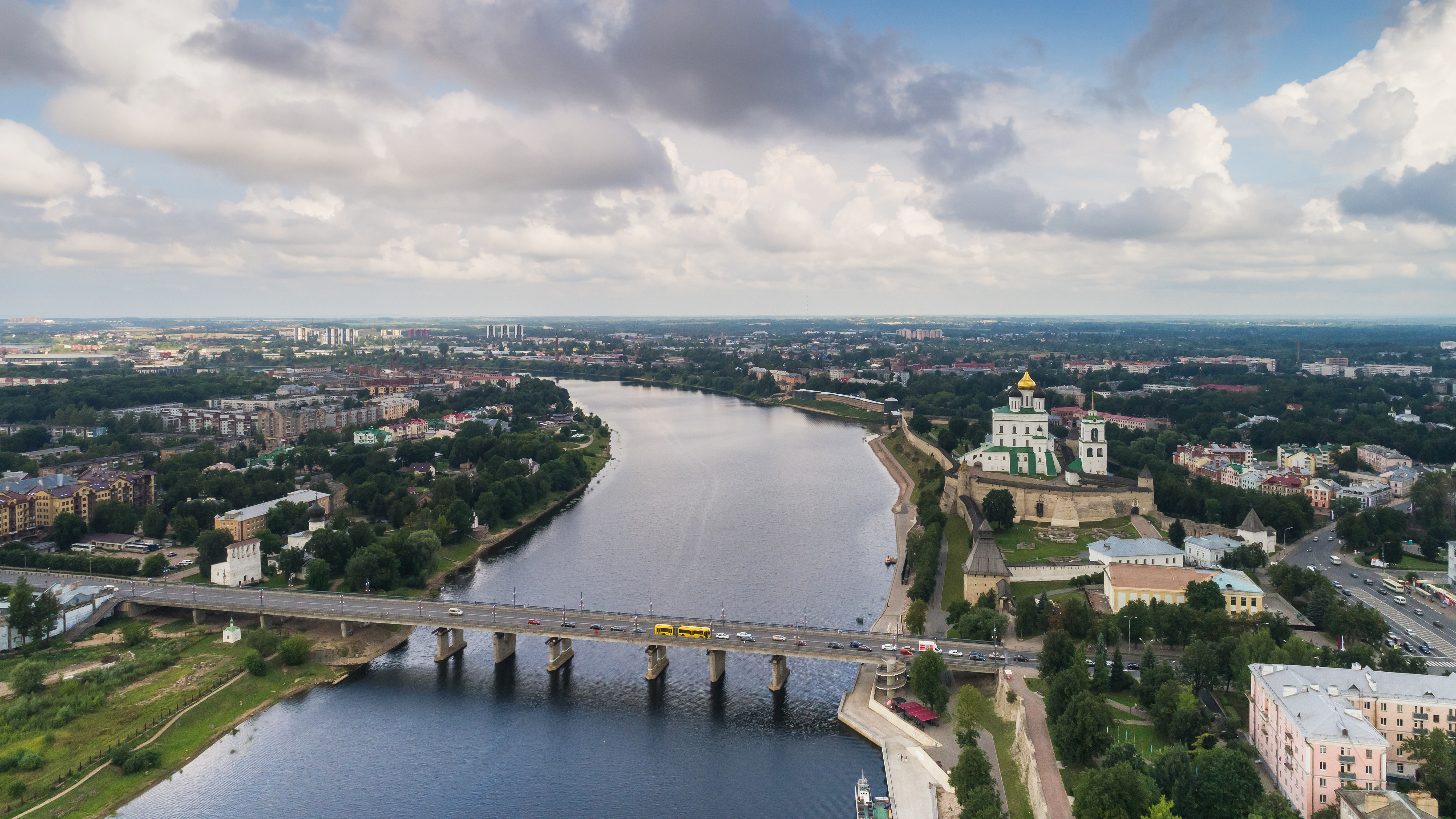 Aerial view of the Kremlin in Pskov, Russia